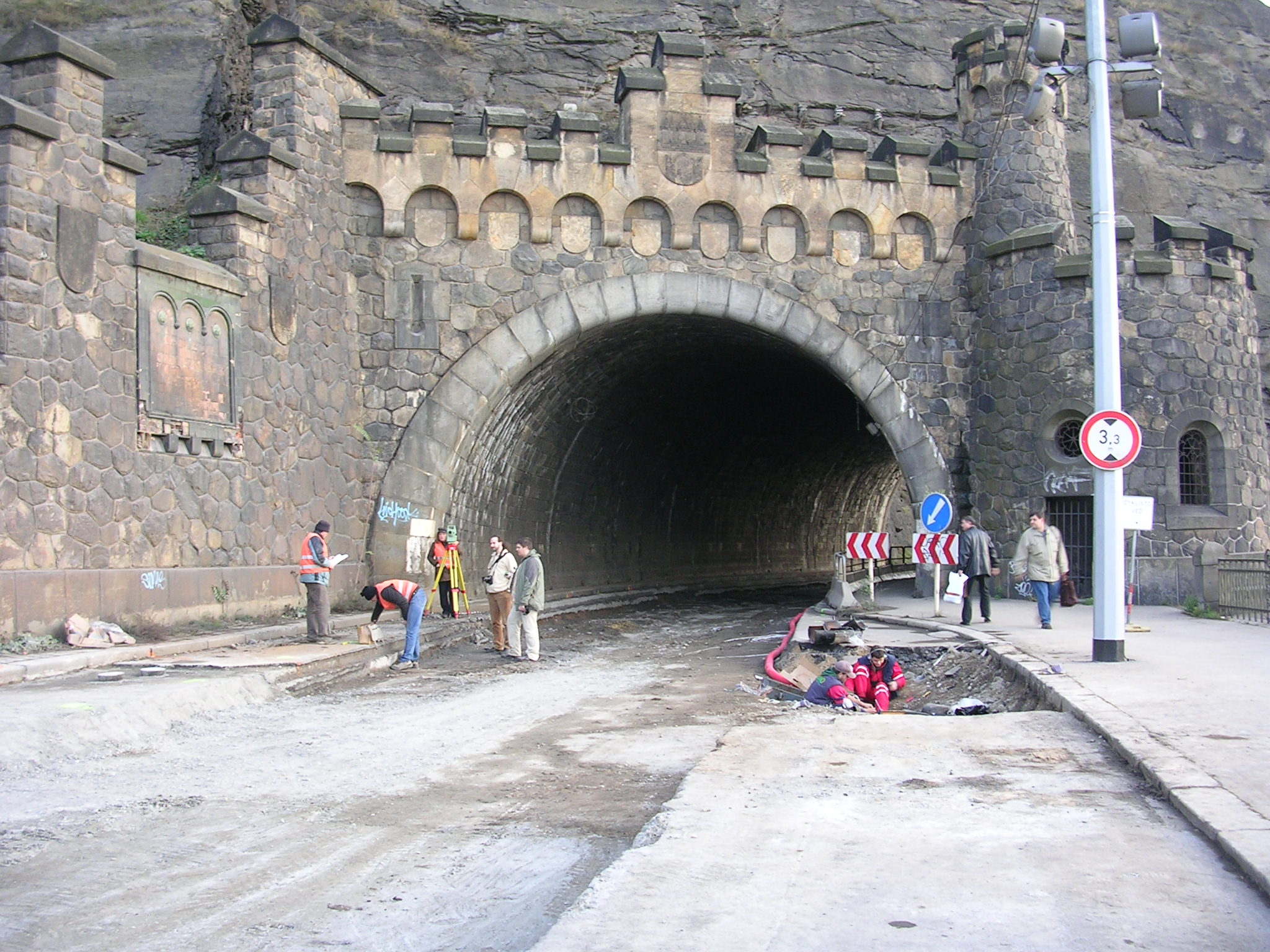 Vyšehrad, Prague. Reconstruction of tram track.